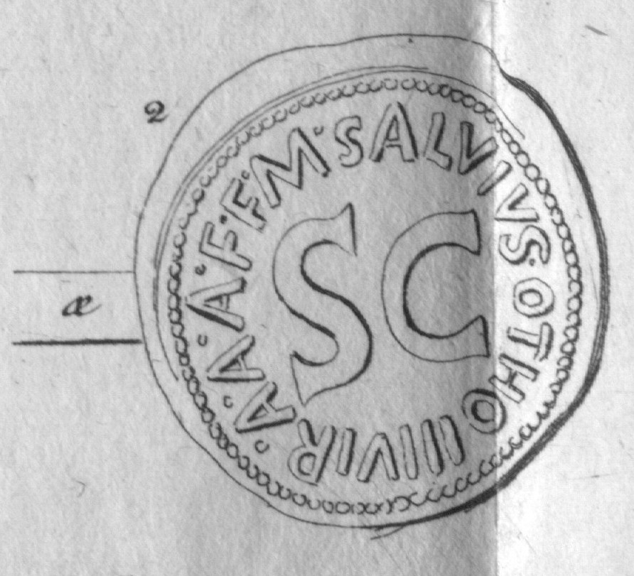 Roma - Augustus - Dupondius R// M SALVIVS OTHO III VIR AAA F F around large S C. Cohen 515 - from an Italian translation of: Eckhel: Kurzgefasste Anfangsgründe zur alten Numismatik, Vienna, 1787, - Self scanned